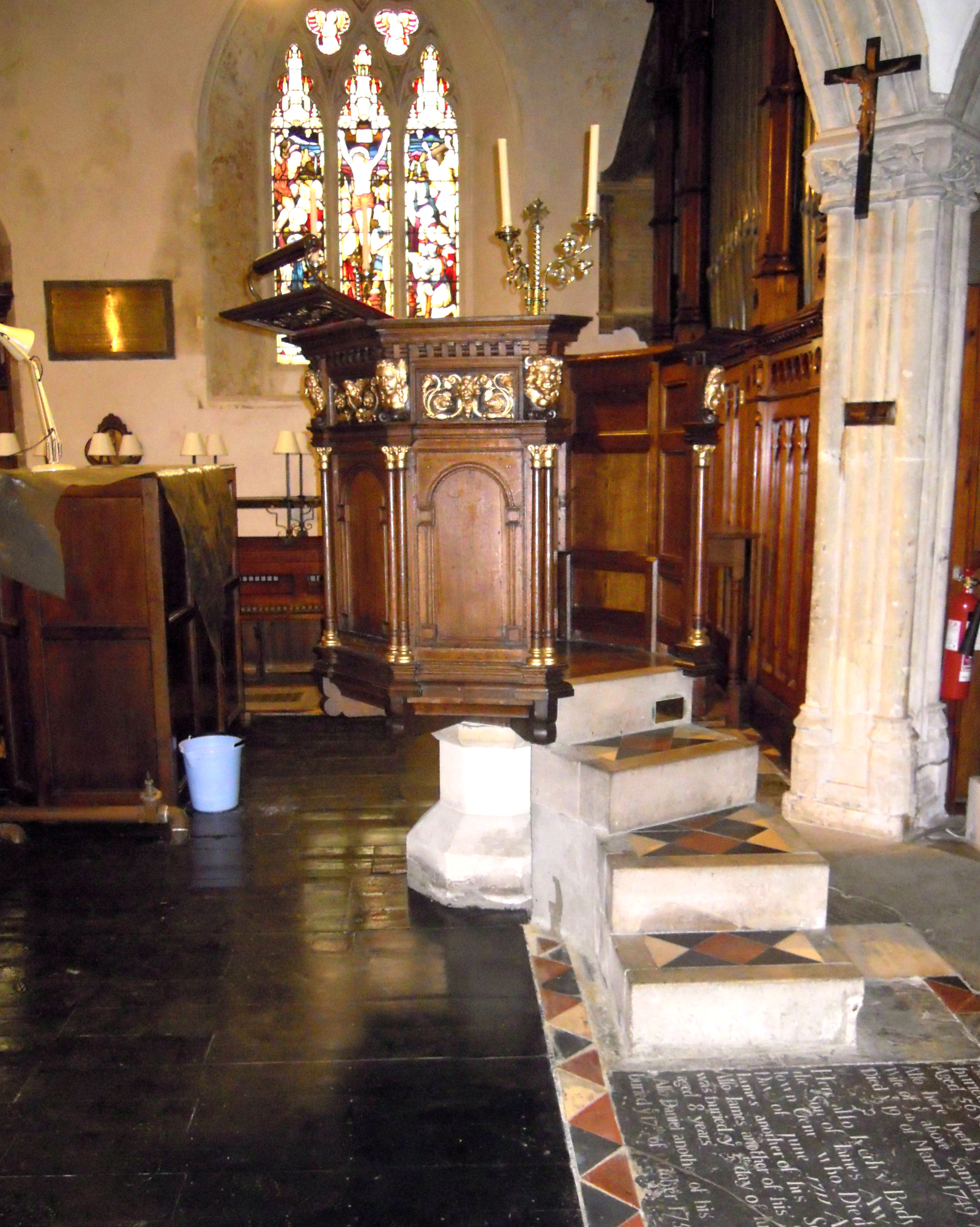 The pulpit at the Church of St Michael and All Angels, Great Torrington in Devon